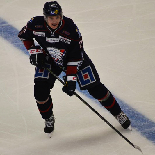 Carl Dahlström of Linköpings HC during a SHL game.